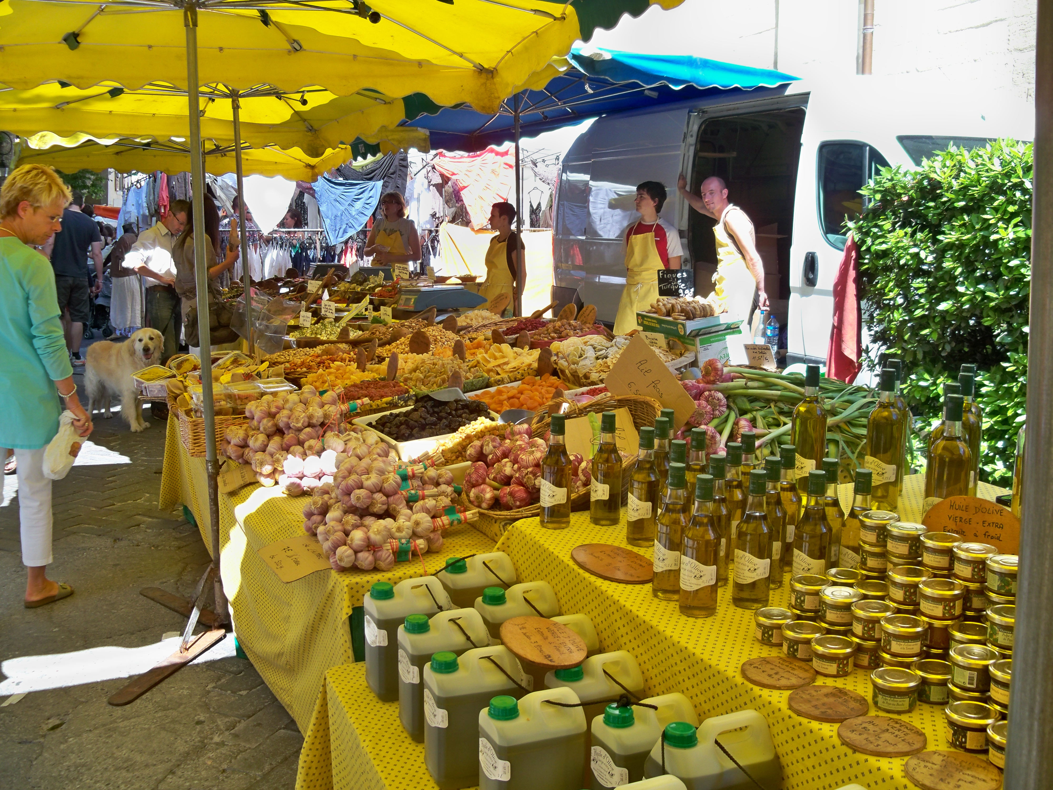 weekly market in L'Isle sur la Sorgue, Vaucluse